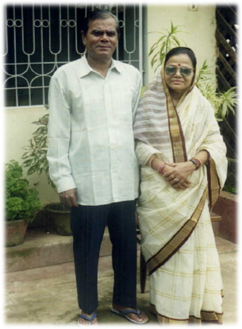 Biswajit with Gayatri